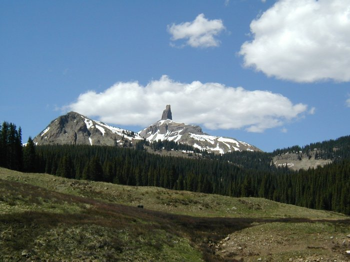 United States National Weather Service photo of Lizard Head Peak, 13,133', San Miguel County, Colorado